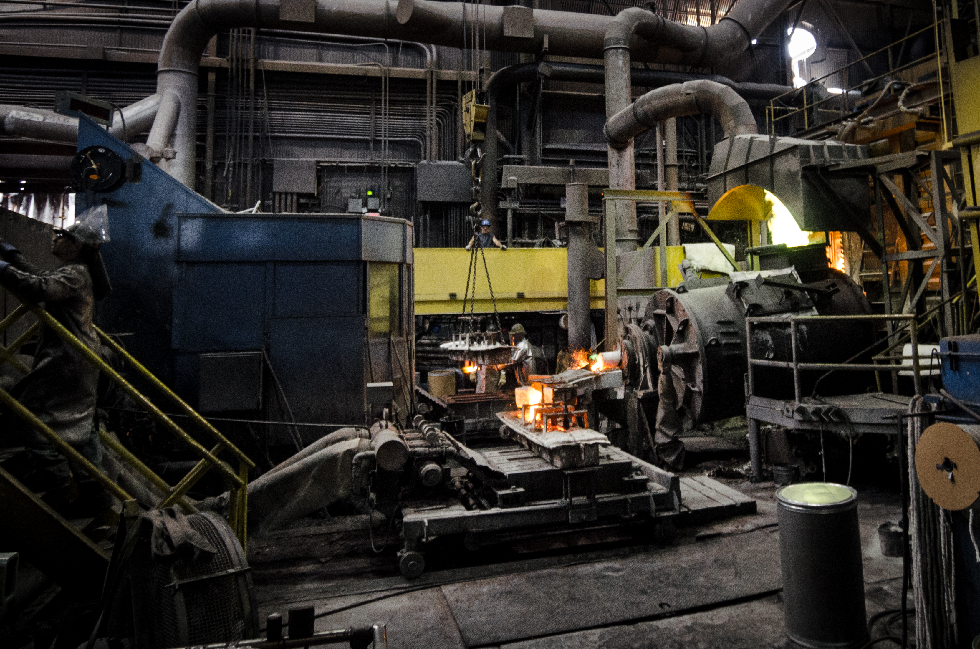 Metal workers at Hussey Copper melt down copper in Leetsdale, PA on August 8, 2015